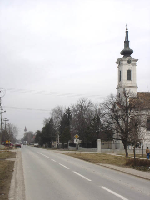 Two Orthodox churches in Upper- and Lower- Kovilj, Serbia Category:Novi Sad images